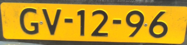 Dutch "GV" (GrensVerkeer = Border traffic) license plate, attached to agricultural vehicles which need to cross the border for their work (e.g. work on land that is just across the border in either Belgium or Germany)